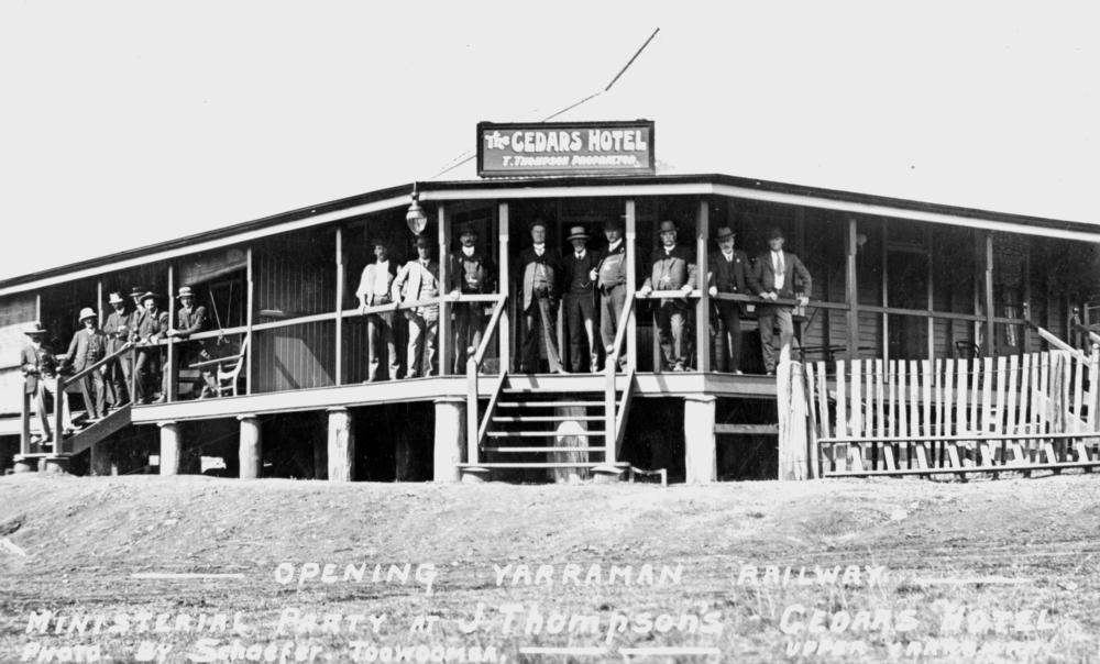 Ministerial party at The Cedars Hotel, Upper Yarraman, for the opening of the railway, 1913 Caption on photograph: Opening Yarraman Railway. Ministerial party at J.Thompson's Cedars Hotel. Photo by Schaefer, Toowoomba. Upper Yarraman.